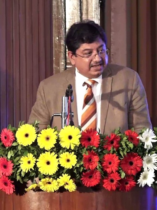 He is Director General of Shipping, and Additional Secretary to the Govt. of India.